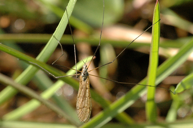 Picture taken in Commanster, Belgian High Ardennes . Species: Limnophila schranki